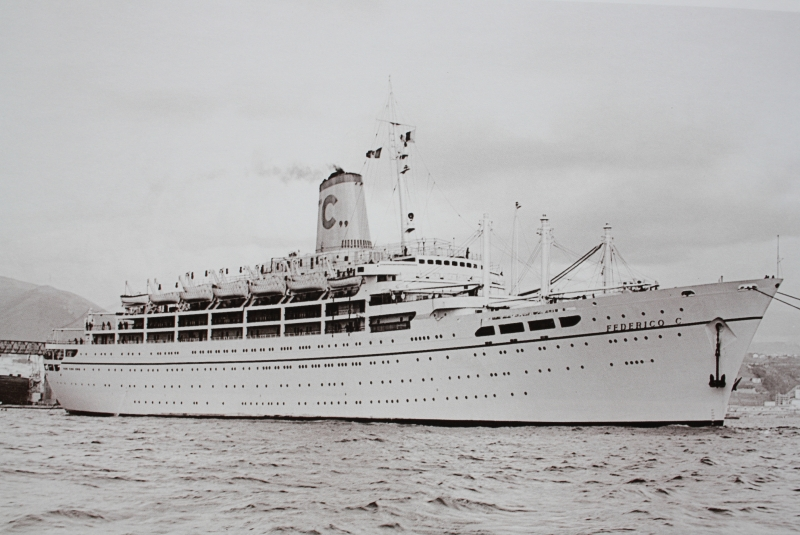 Federico Costa in Genoa ready for the first tests at sea